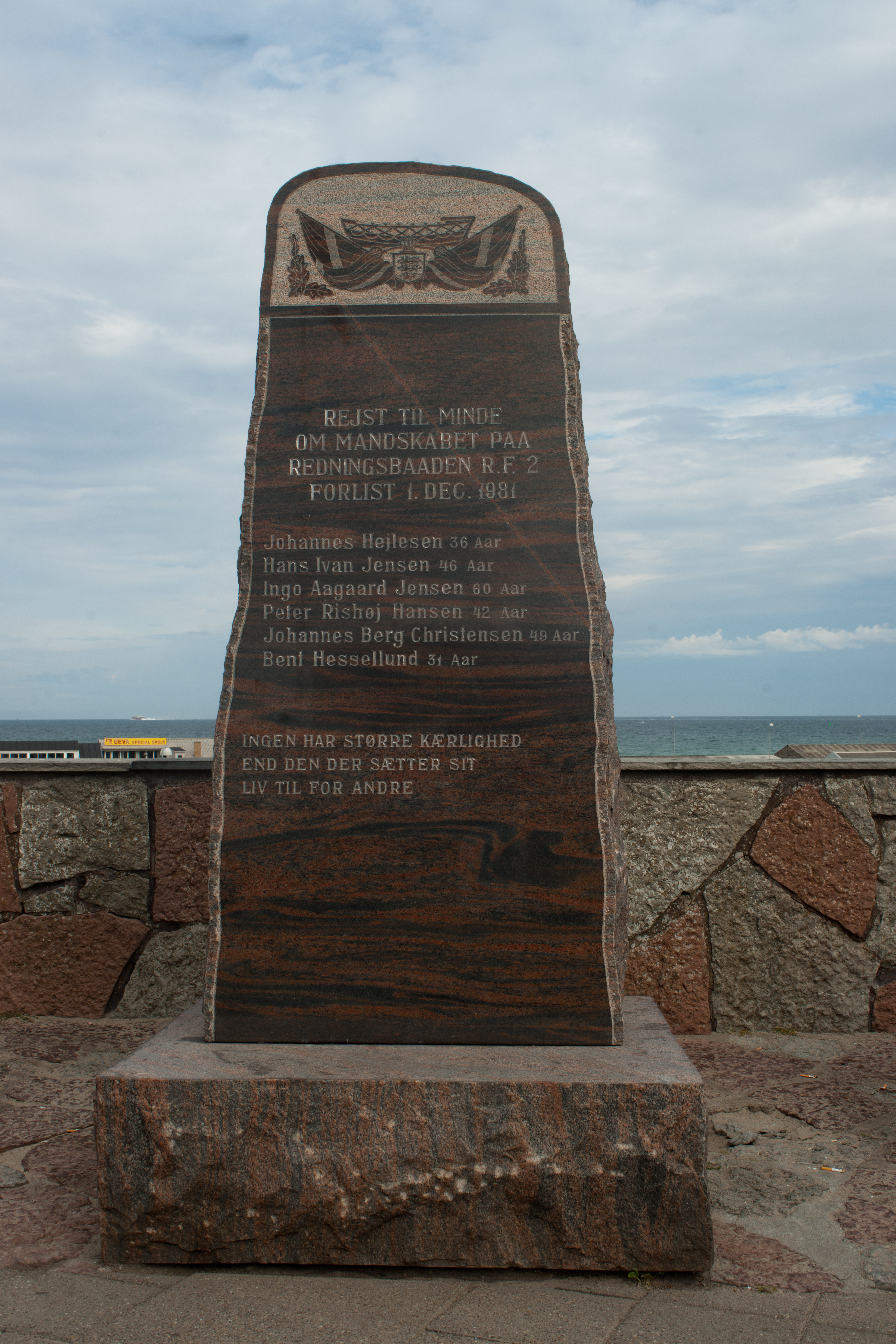 Memorial to the crew of the Danish lifeboat RF 2, sunk on 1st December 1981. Hirtshals, Denmark.